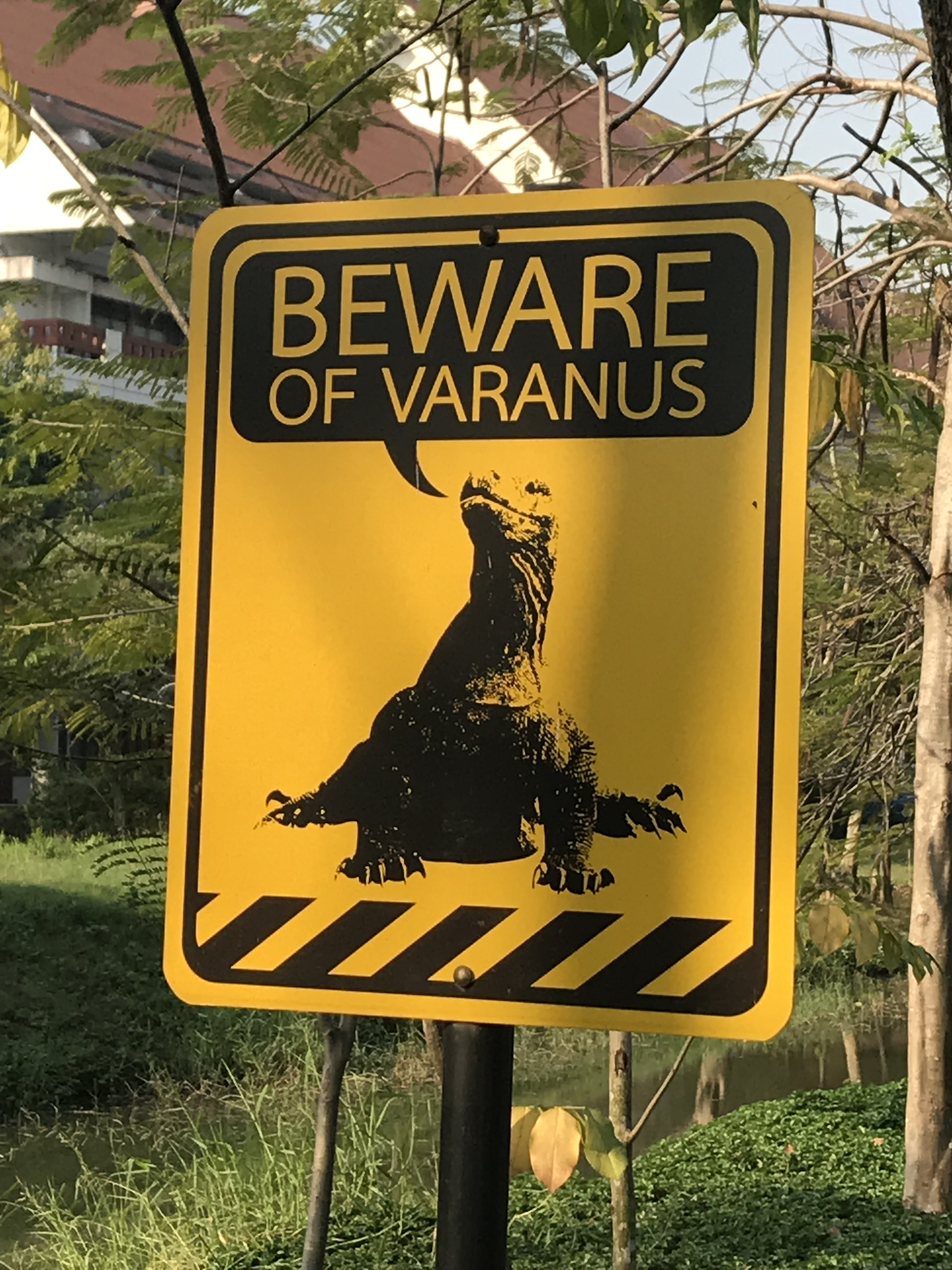 Varanus (Water monitor) crossing the roadway sign at Thammasat University (Rangsit Centre), Pathum Thani, Thailand